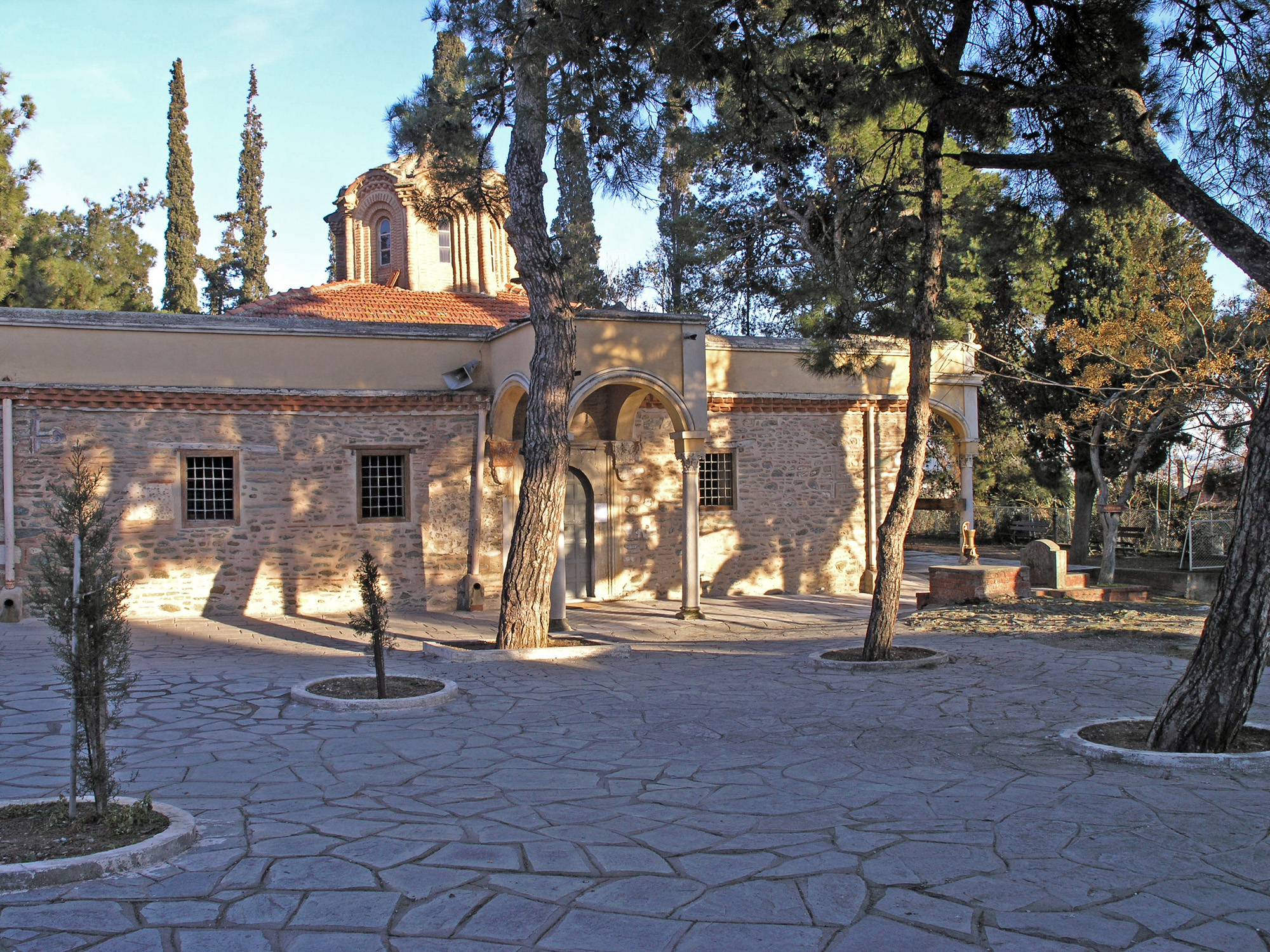 Byzantine church of the Moni Vlatadon monastery in Thessaloniki : West facade and entrance. Ca 1351-1371. Photograph taken by Marsyas 10:28, 27 February 2006 (UTC)